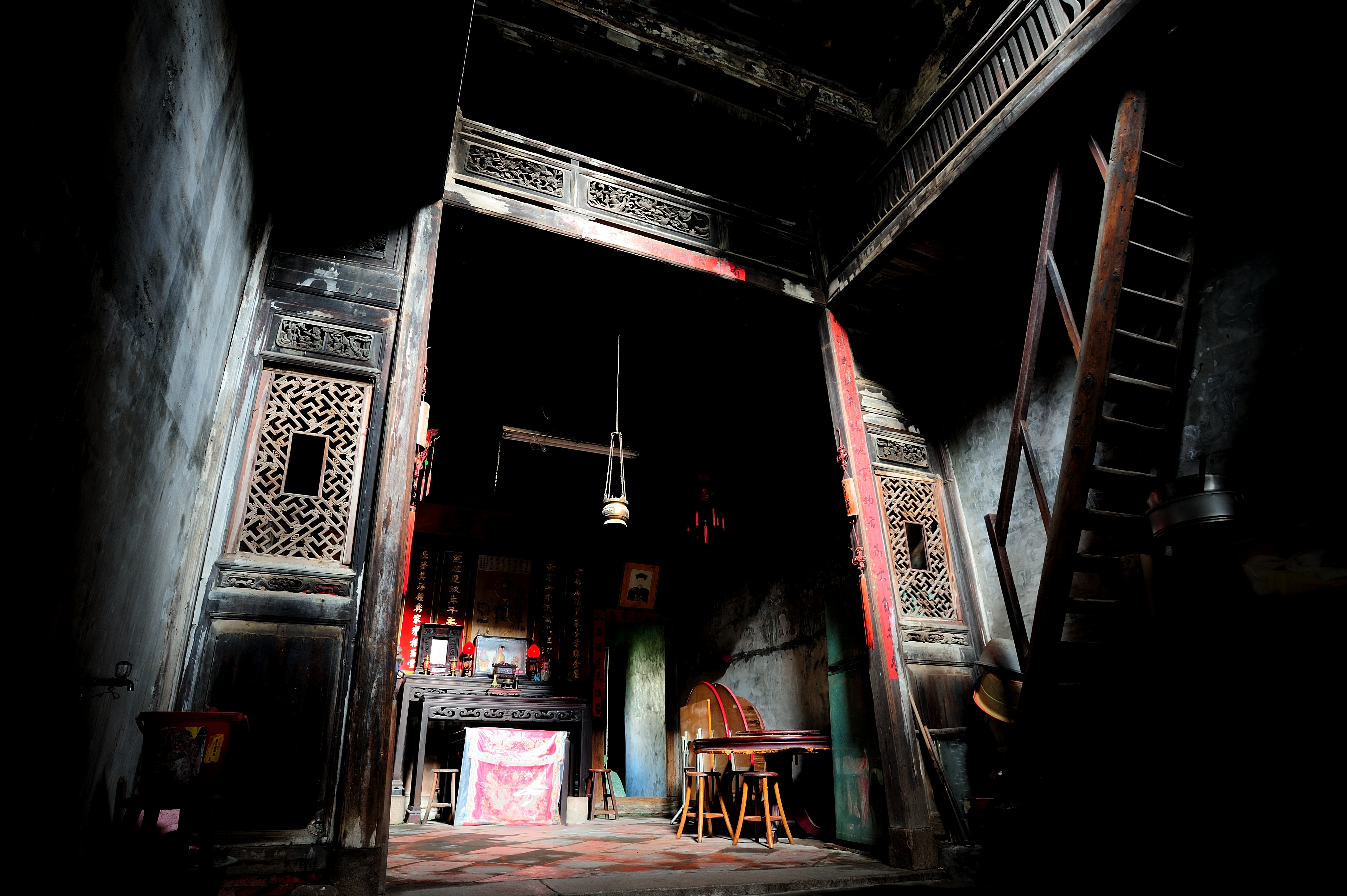 Shi Family Abode, Lukang.